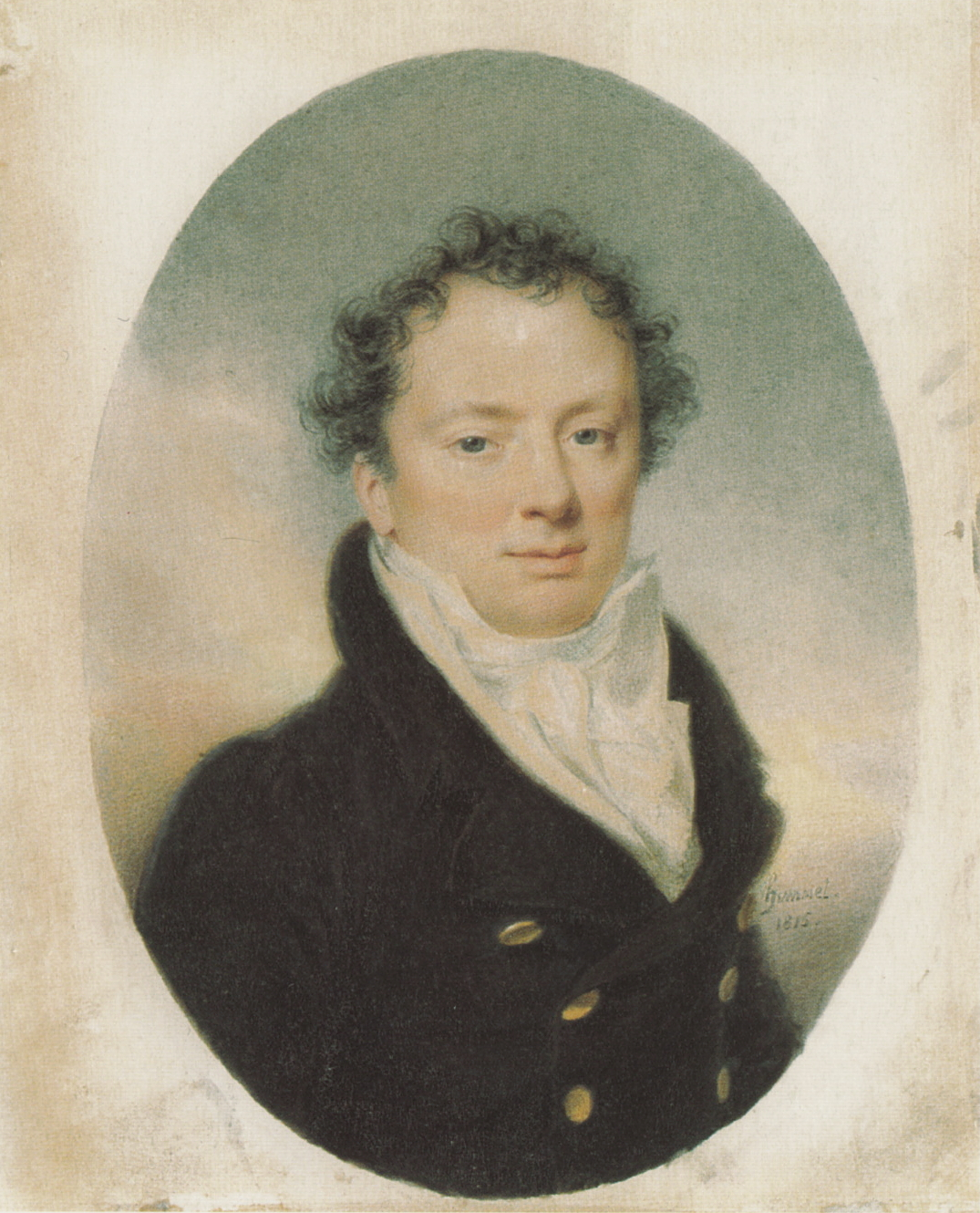 Portrait Joseph Carl (Josef Karl) Rosenbaum (1770–1829). 15.7 x 12 cm. Signed Hummel and dated. Collection: Wien Museum, Inv.Nr. 61.100